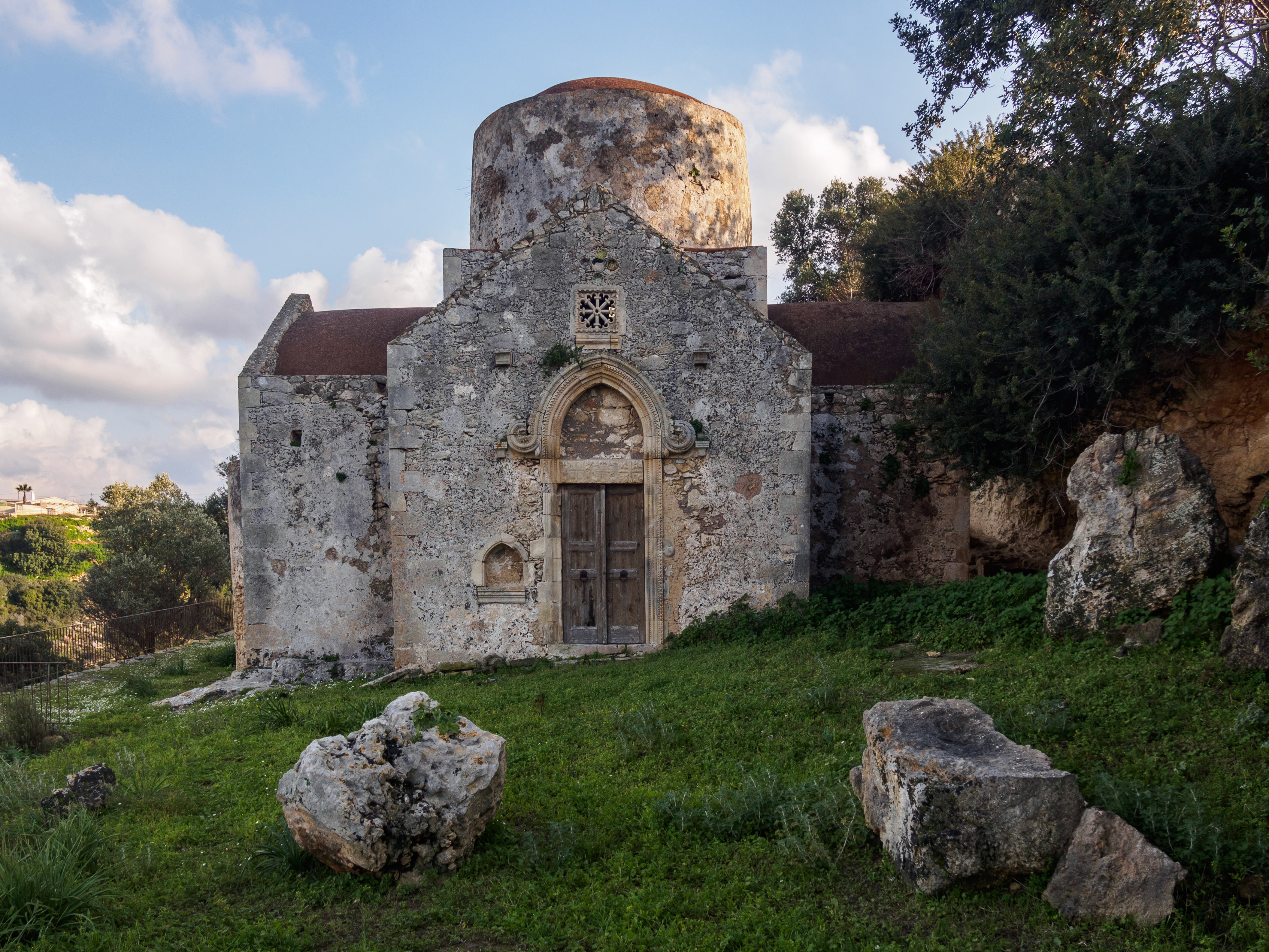 The 15th century church of Lifegiving Spring at Prinos, Rethymno